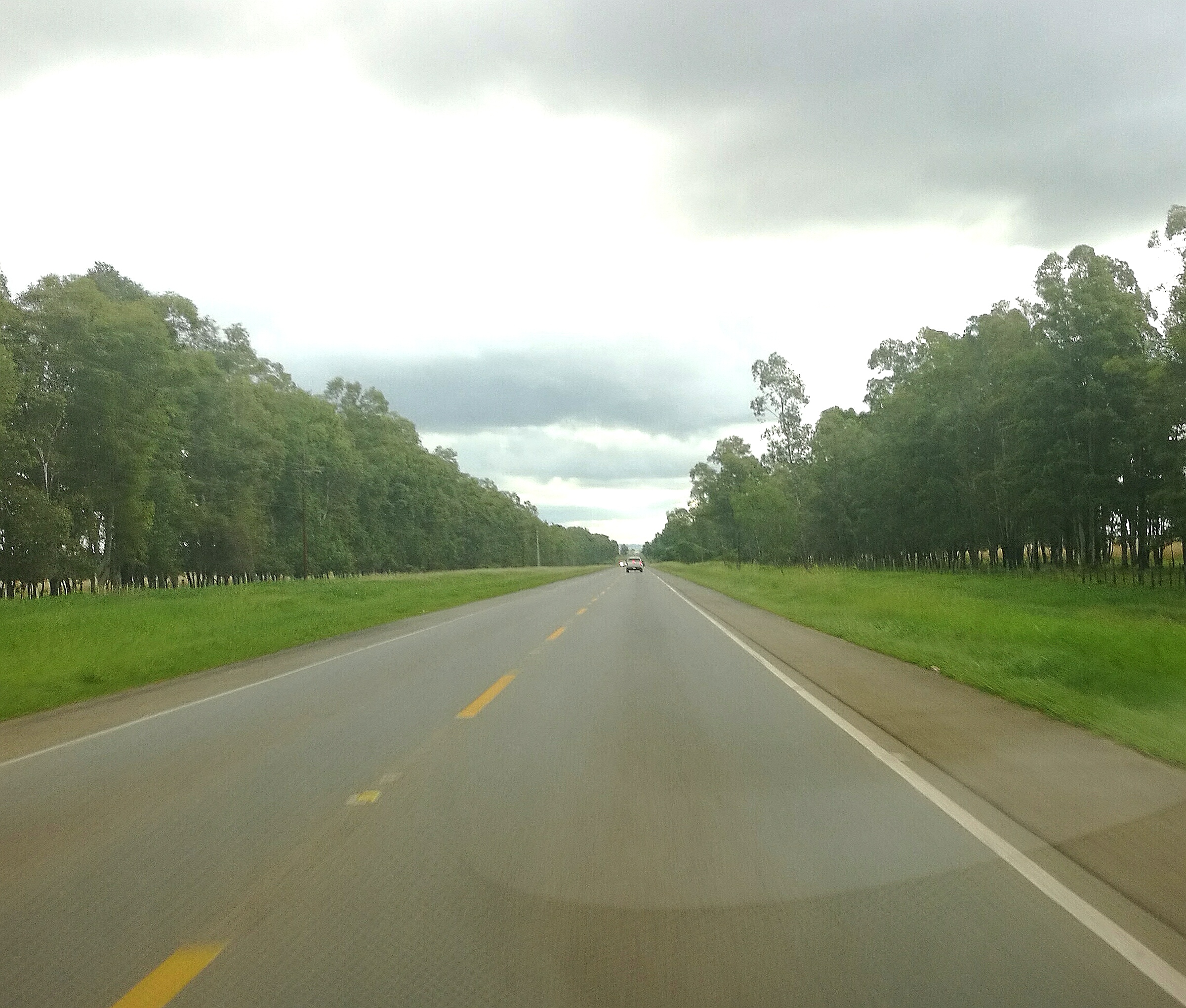 Route 1 in Paraguay